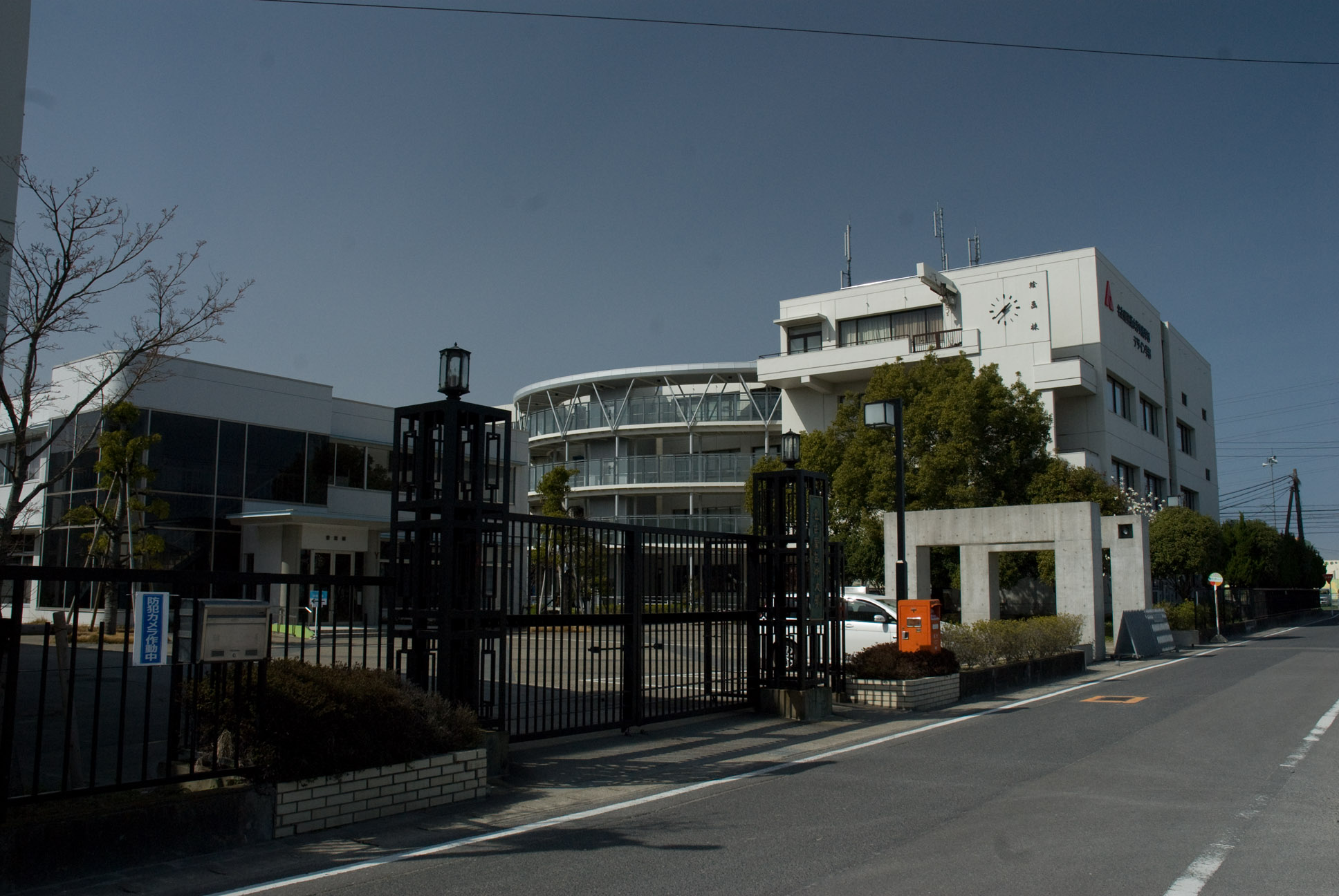 Nagoya University of Arts (West Campus)